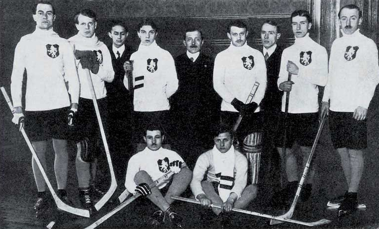 Bohemia ice hockey team - Champion of Europe 1911. In the back from the left: Jaroslav Jarkovský, Otakar Vindyš, Joseph Laufer (plain clothes), Josef Šroubek, Emil Procházka (plain clothes), Jan Hamáček, Miloslav Fleischmann (plain clothes), Jan Palouš, Jan Fleischmann. Sitting: Jaroslav Jirkovský and Josef Rublič.